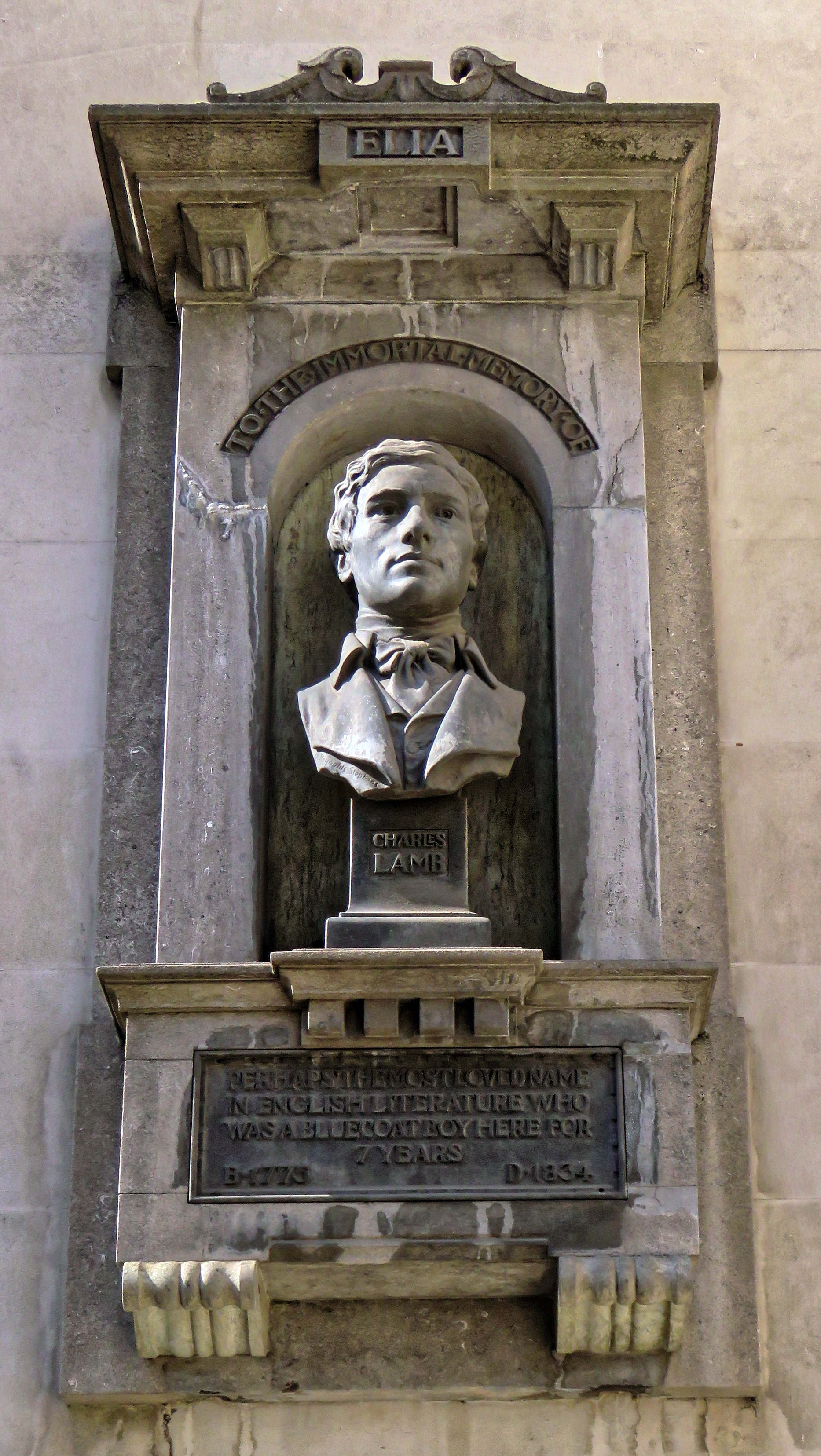 Wall mounted memorial monument to Charles Lamb, next to the Watch House on Giltspur Street in the City of London, England. The inscription reads: "Perhaps the most loved name in English literature who was a bluecoat boy here for 7 years. B·1775, D·1834."Camera: Canon PowerShot SX60 HS.Software: file lens-corrected and optimized with DxO PhotoLab Elite and Viewpoint 3, and further optimized with Adobe Photoshop CS2.